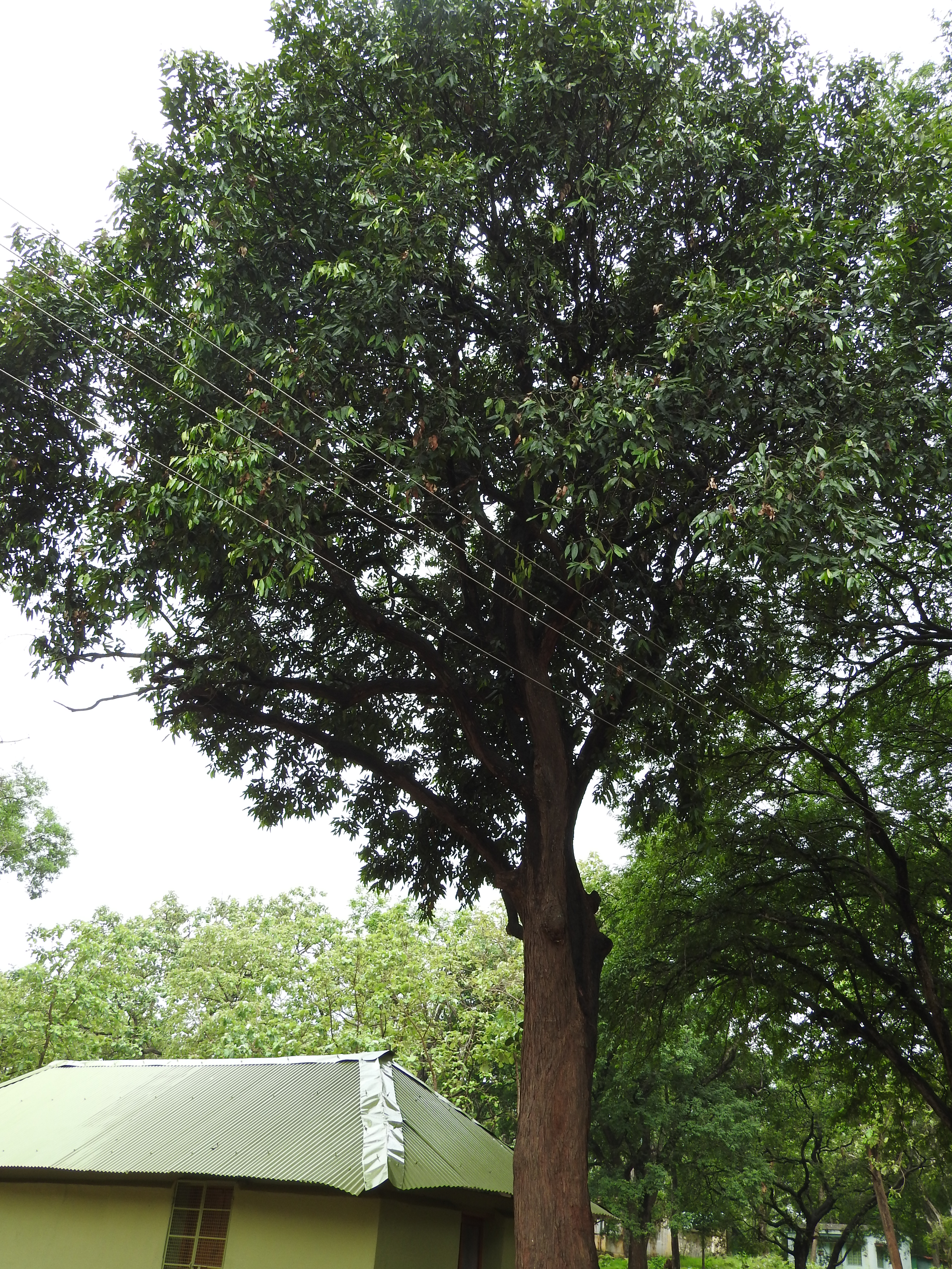 Dipterocarpaceae-karaukongu; tree,flowers yellowish white.